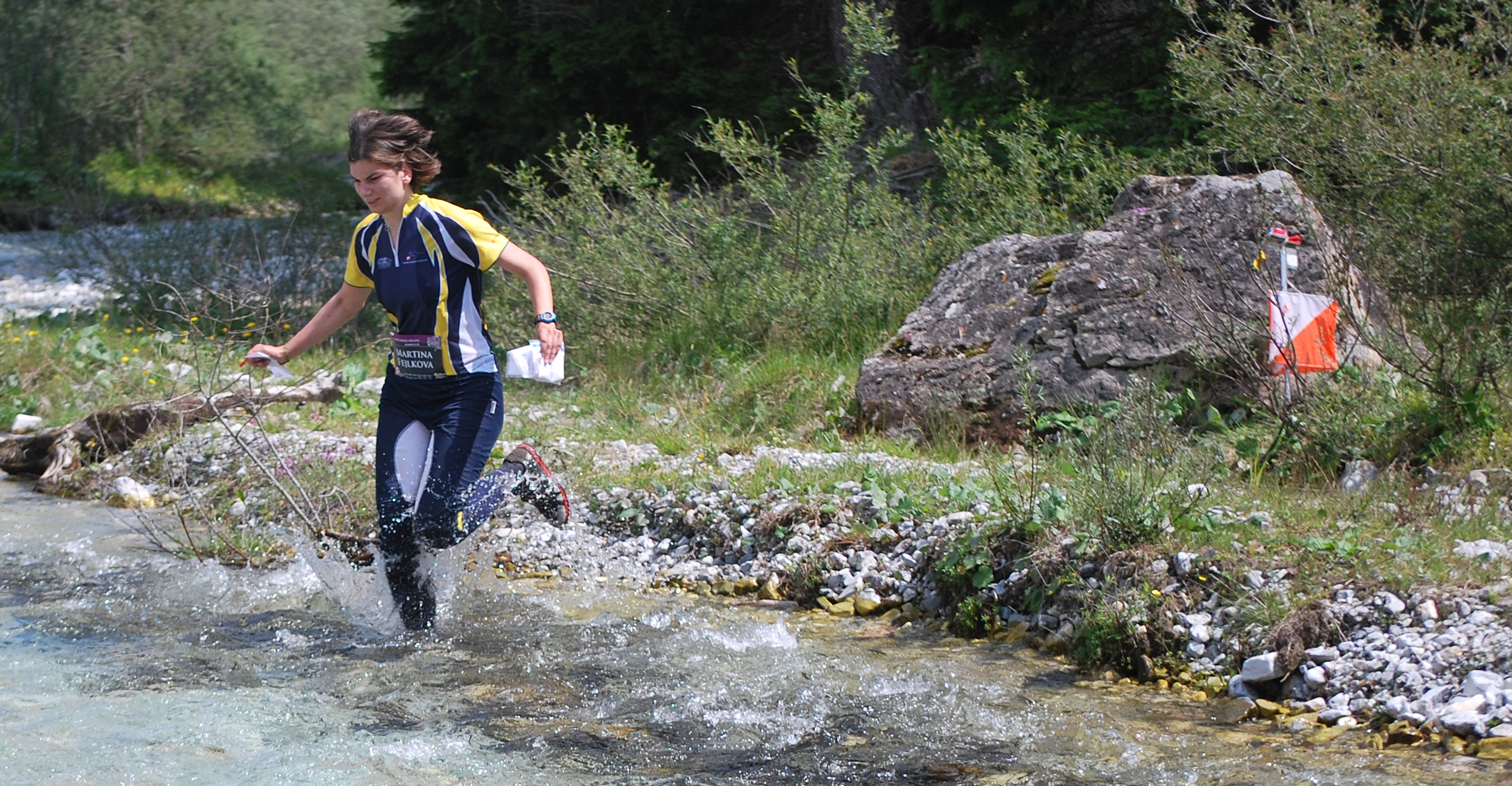 Orienteer crossing a river. 6 Days of Tyrol 2010, Obernberg